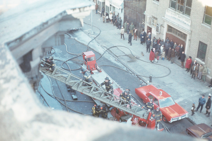 FDNY, January 28, 1969